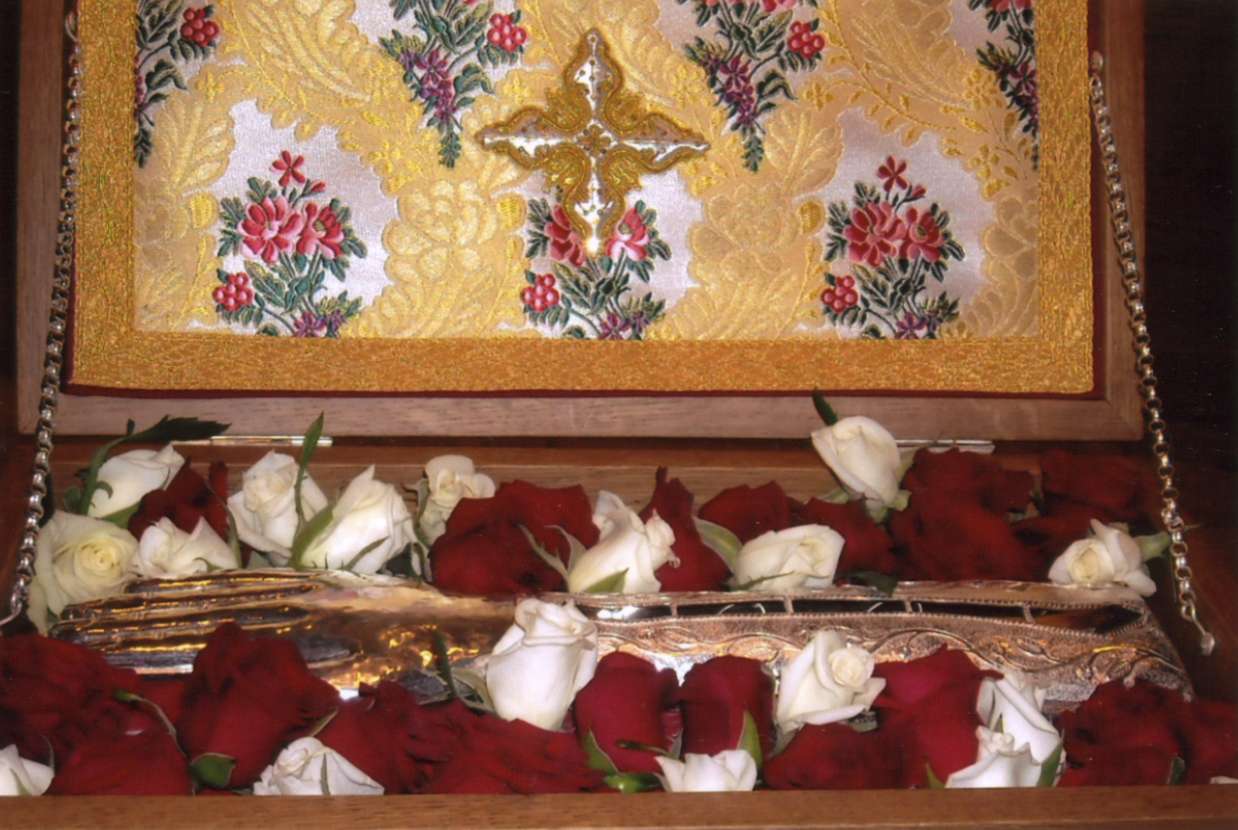 Holy relic (part of the right arm) of Saint Theocharis of Neapoly